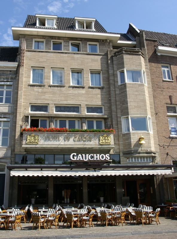 National monument no. 506726- Vrijthof 52, Maastricht, The Netherlands